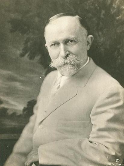 Portrait of Dr. John Harvey Kellogg, 1915, The Willard Library